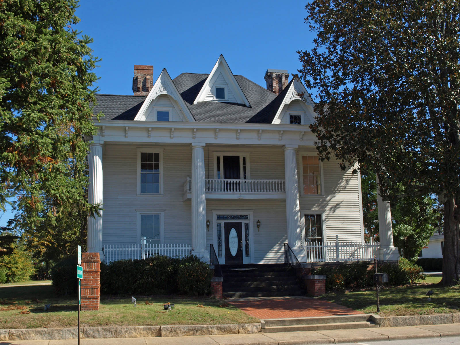 41 West Candler Street in Winder, Georgia, part of the North Broad Street Residential Historic District